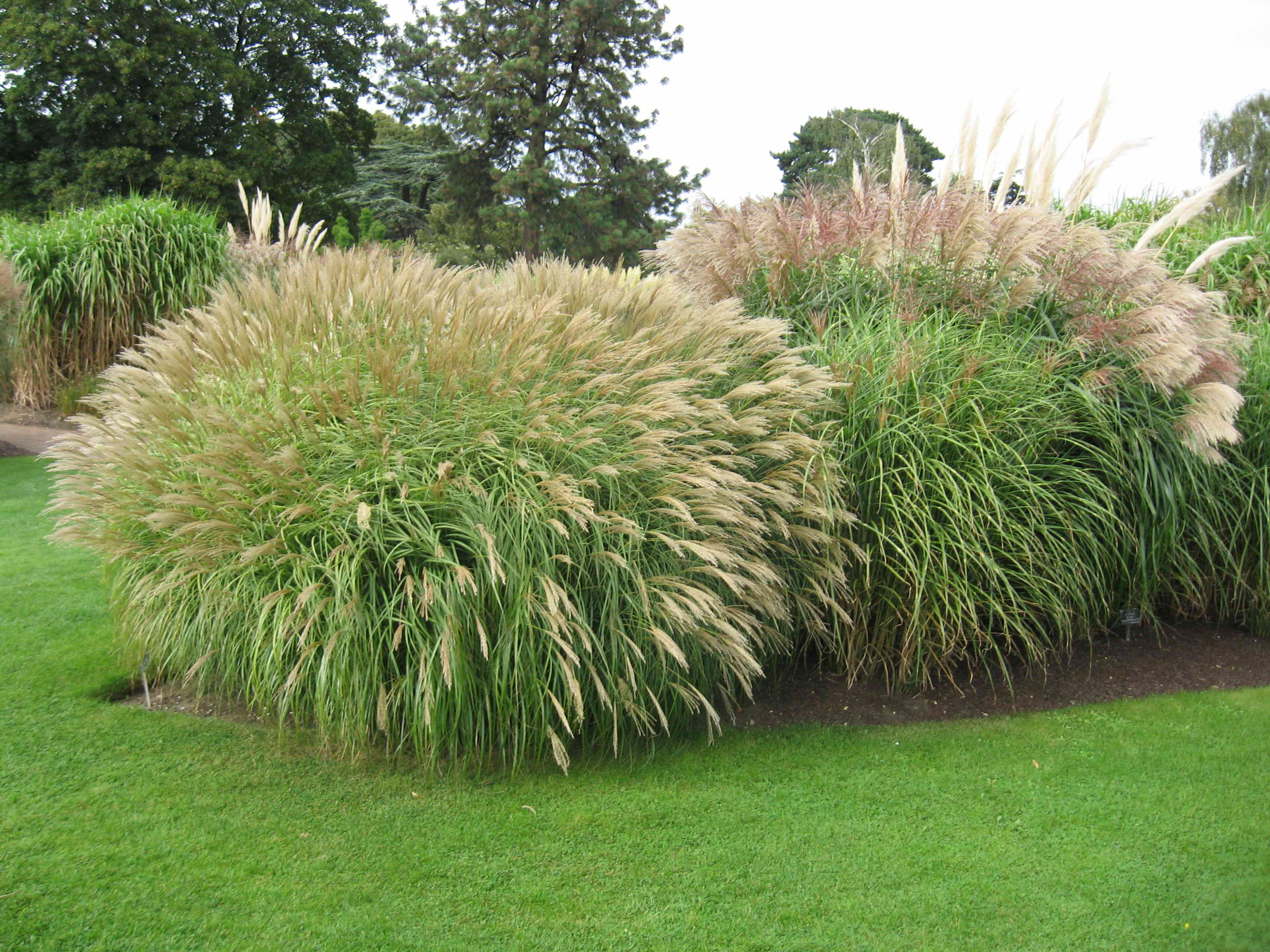 Kew The garden of grasses